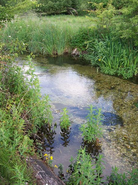 The River Bourne at Winterbourne Gunner in Wiltshire, a typical chalk stream Summary The River Bourne at Winterbourne Gunner in Wiltshire, a typical chalk stream